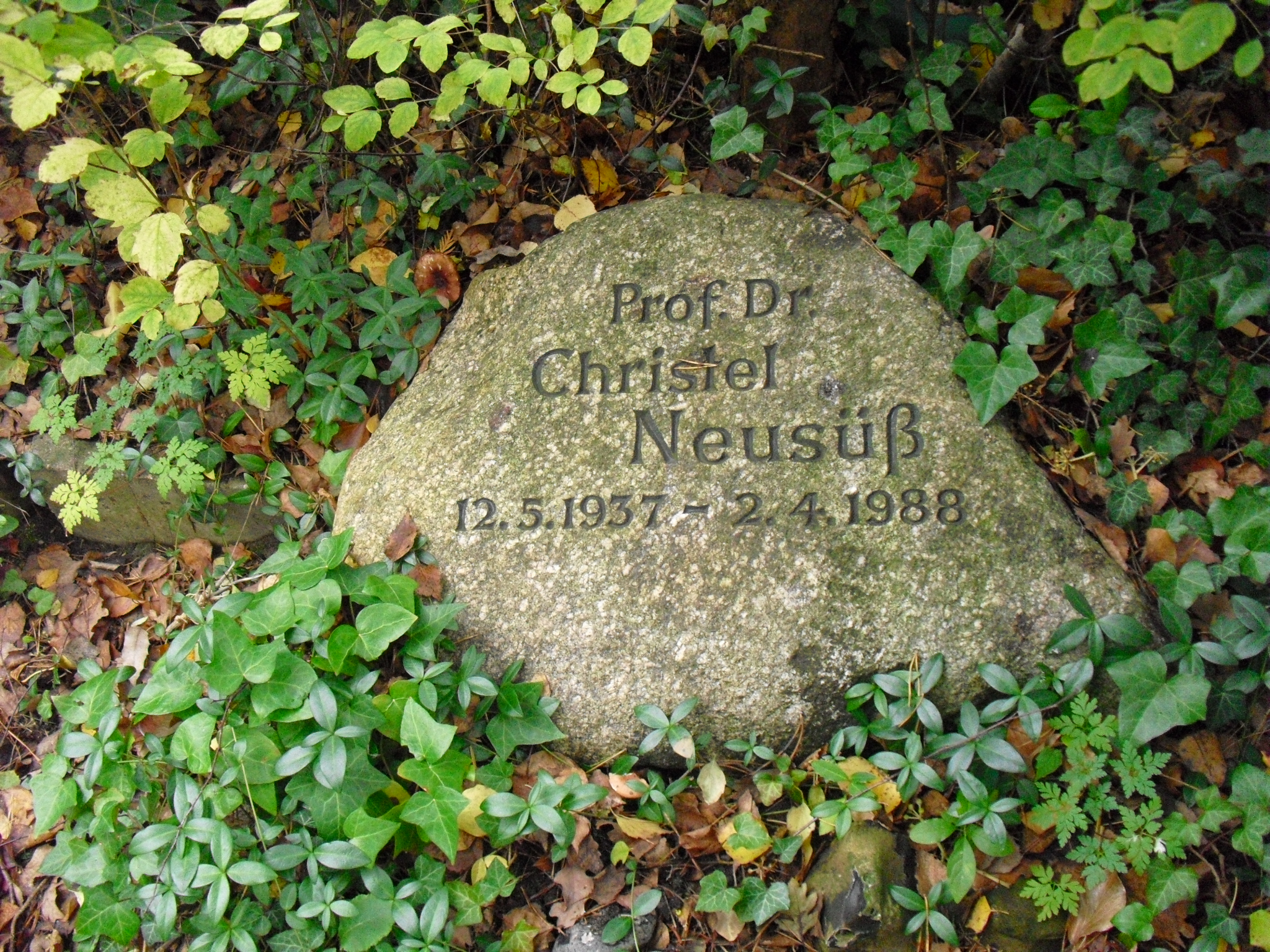 Grave of German economist Christel Neusüß at Friedhof Heerstraße in Berlin-Westend